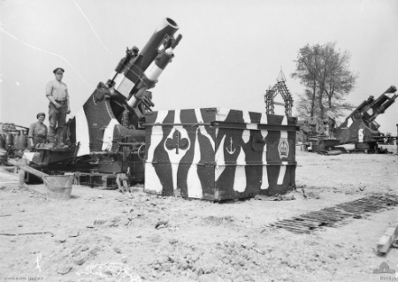 Unidentified British gun crews with two camouflaged 9.2 inch Mk I howitzers, 'Ann' (left) and 'Berdameda' (right) which were presently engaged in supporting the Australian Corps. The box in front of 'Ann' is known as a dirt box, which was filled with soil and attached to the gun to act as a counterweight to the force of the blast and keep the gun in position. On the side of the box are a crown, an anchor and a three leaf clover. Note in the background a timber structure, probably an observation tower. Comment : Compare this with Image:9.2inchHowitzersCorbieMay1918-0.jpeg taken at the same position slightly earlier, before the camouflage painting had commenced proper. Place made: France: Picardie, Somme, Corbie